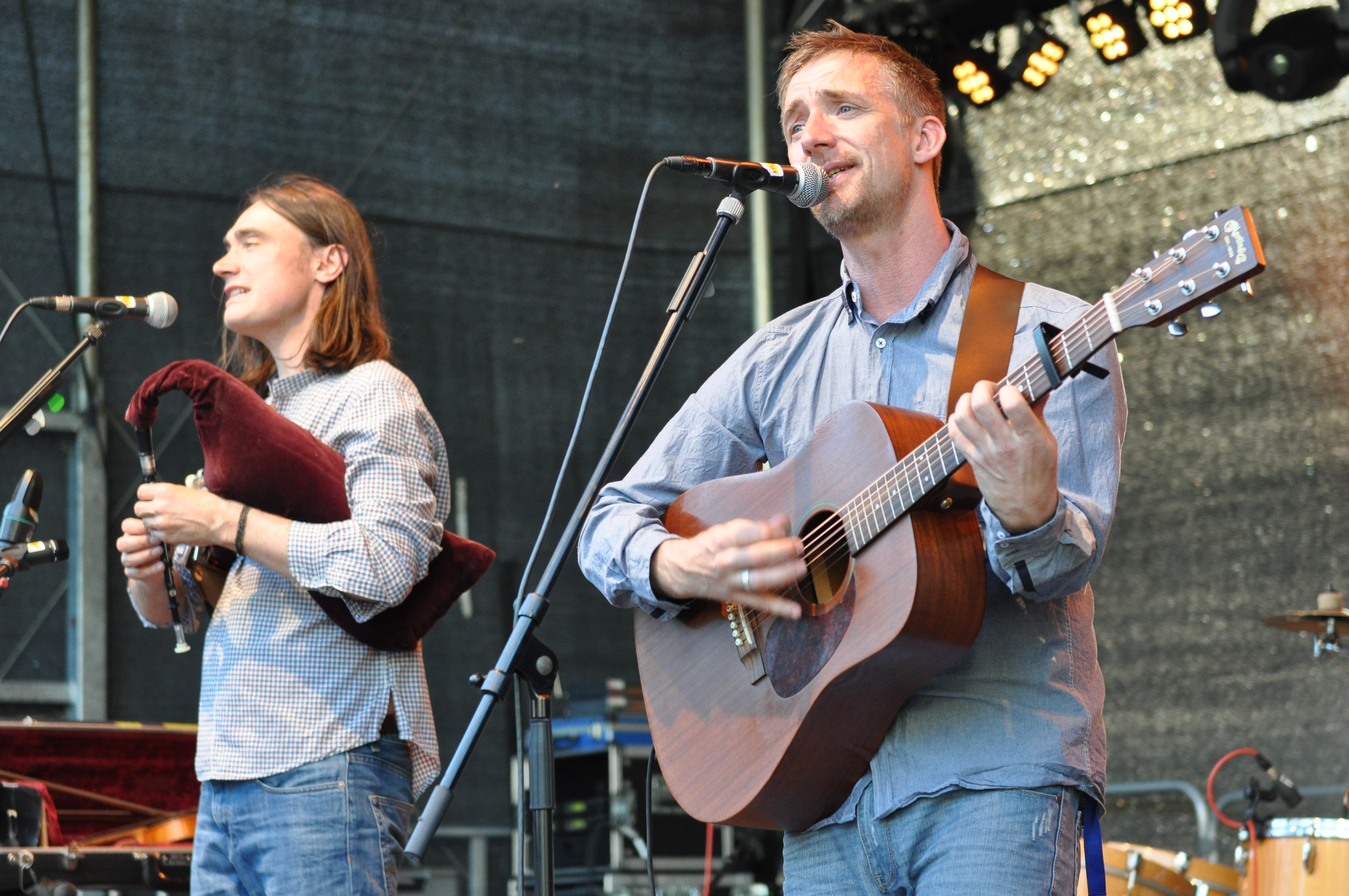 Broom Bezzums at the festival "Folk am Neckar" at Mosbach-Neckarelz (Germany) 2015